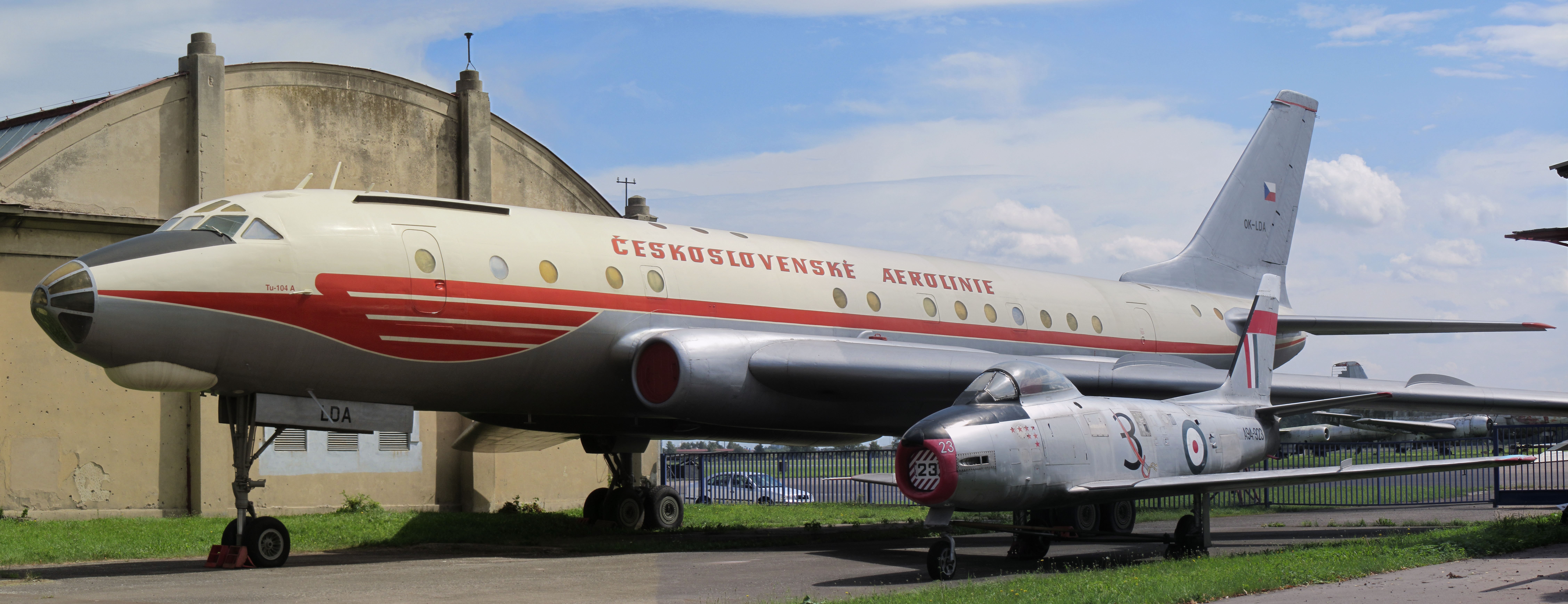 Tupolev Tu-104A and CAC-27 Sabre (Australian variant of North American F-86) at Prague Aviation Museum, Kbely